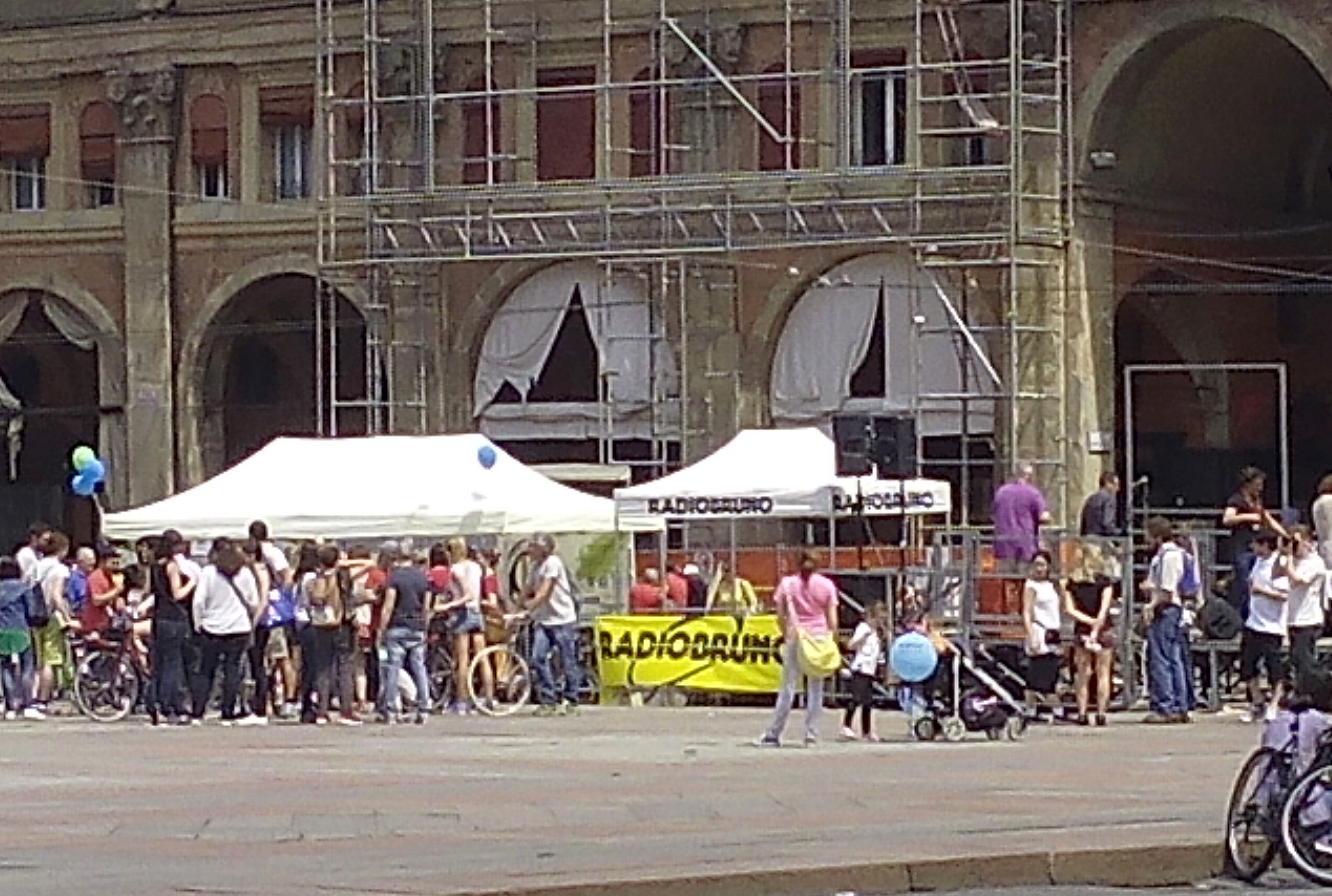 May 2015: a event organized by Radio Bruno in piazza Maggiore (Bologna, Italy)